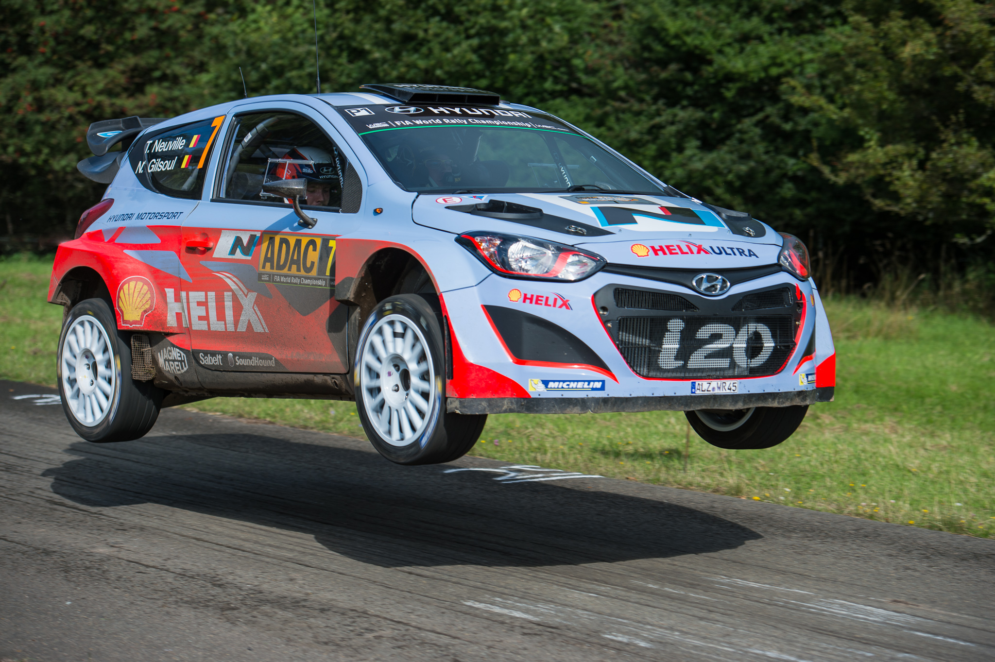 ADAC Rallye Deutschland 2014,FIA,FIA World Rally Championship,Gina,Hyundai Motorsport,Hyundai i20 WRC,Motorsport,Nicolas Gilsoul,Panzerplatte,Rally,Rallye,SS10,Thierry Neuville,WP10,WRC